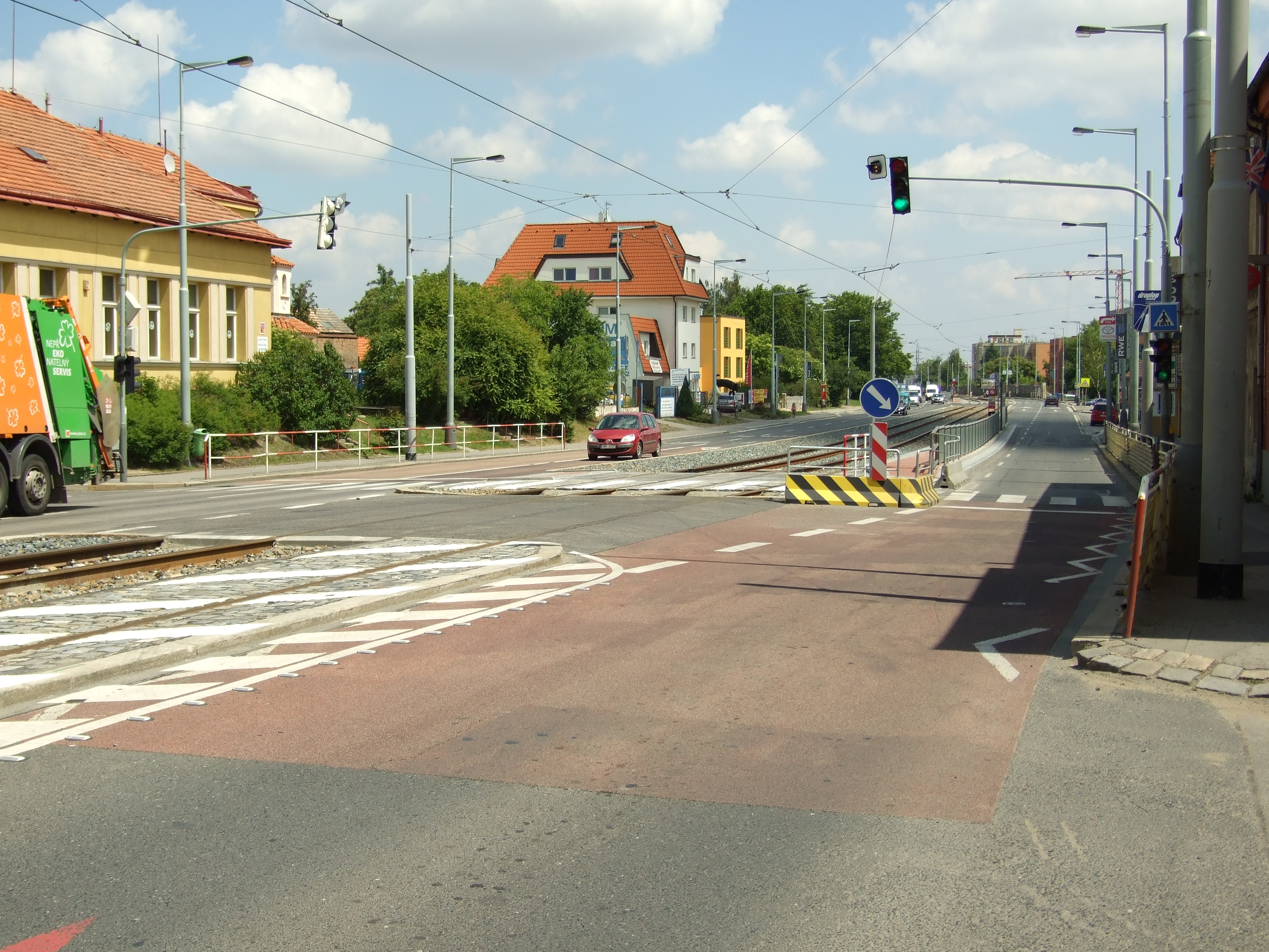 Prague-Břevnov, Bělohorská street, tram stop Malý Břevnov.